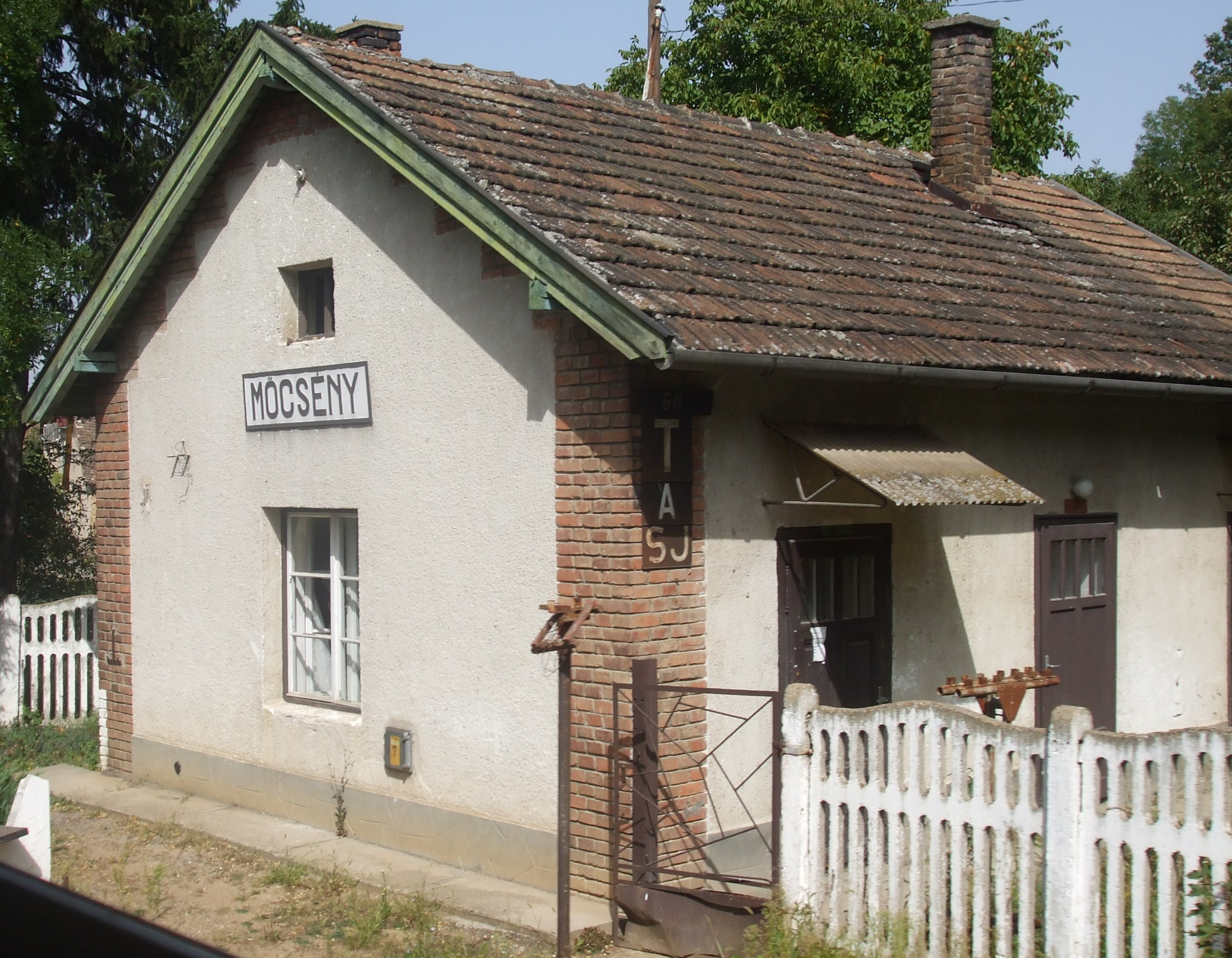 Railway stop of Mőcsény in the Dombóvár-Bátaszék line, Hungary.